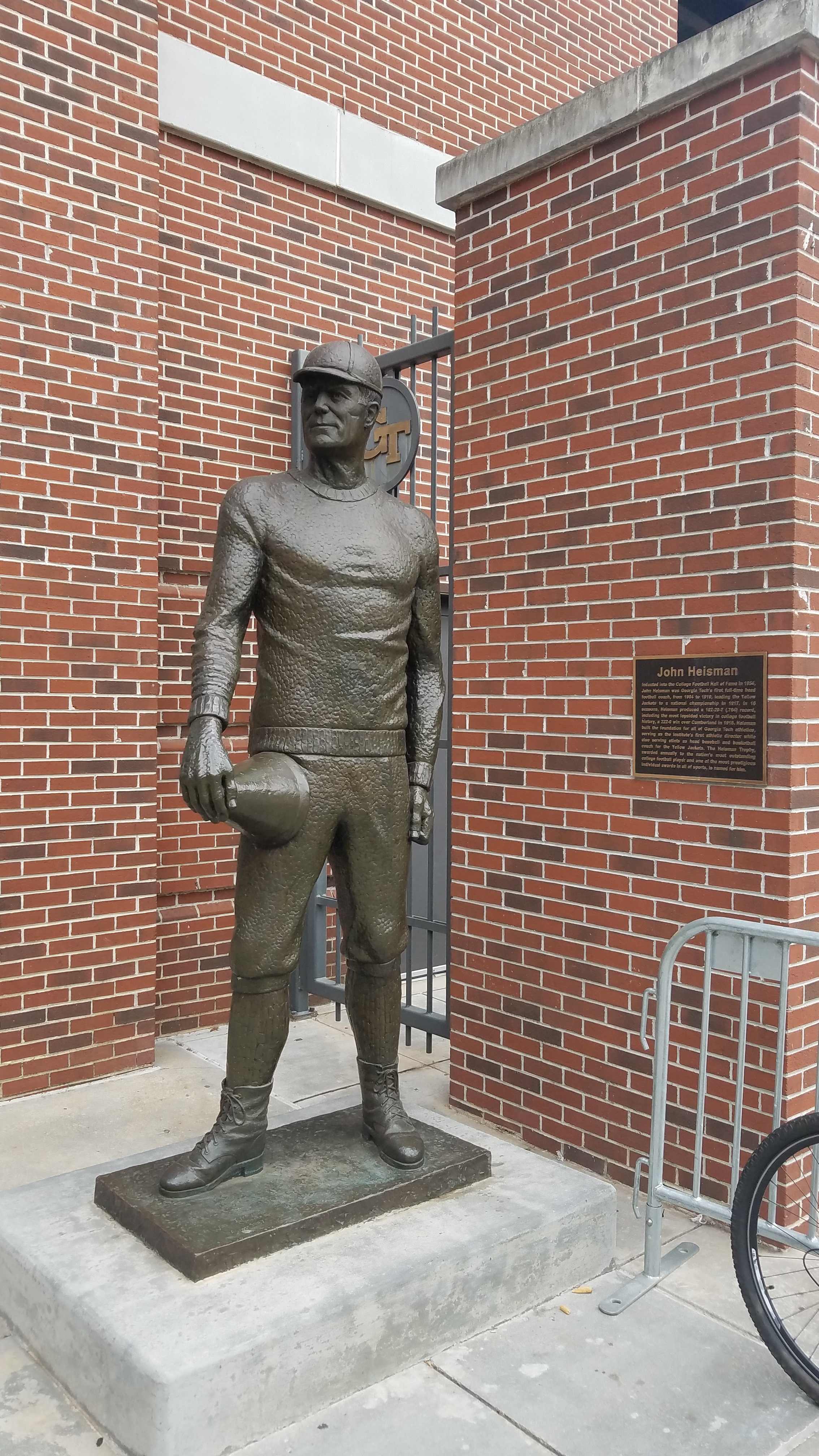 Statue of John Heisman at Callaway Plaza, just north of Bobby Dodd Stadium.